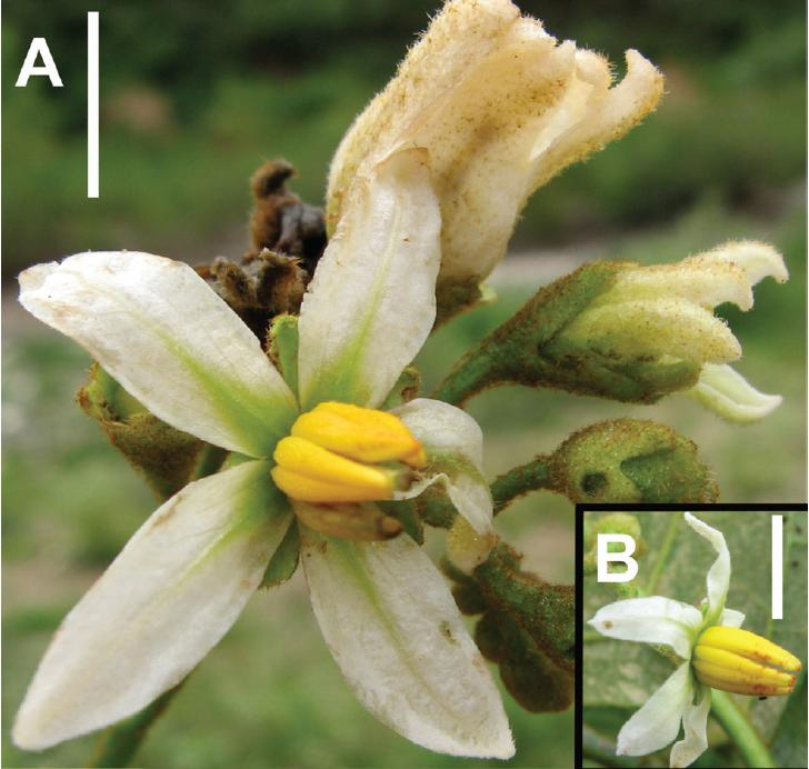 Flower of Solanum achorum. Scale bar = 1cm (A) Hermaphroditic flower and buds. (B) Functionally male flower.